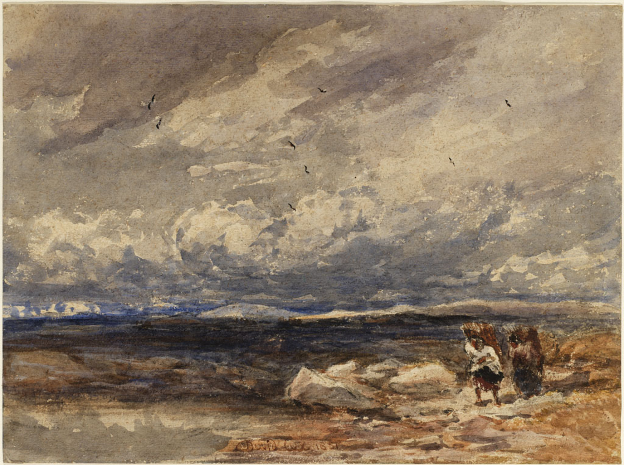 Watercolour and Graphite painting of Carrington Moss, Cheshire. Older documents title this "Besom-makers gathering Heath on Carrington Moss"